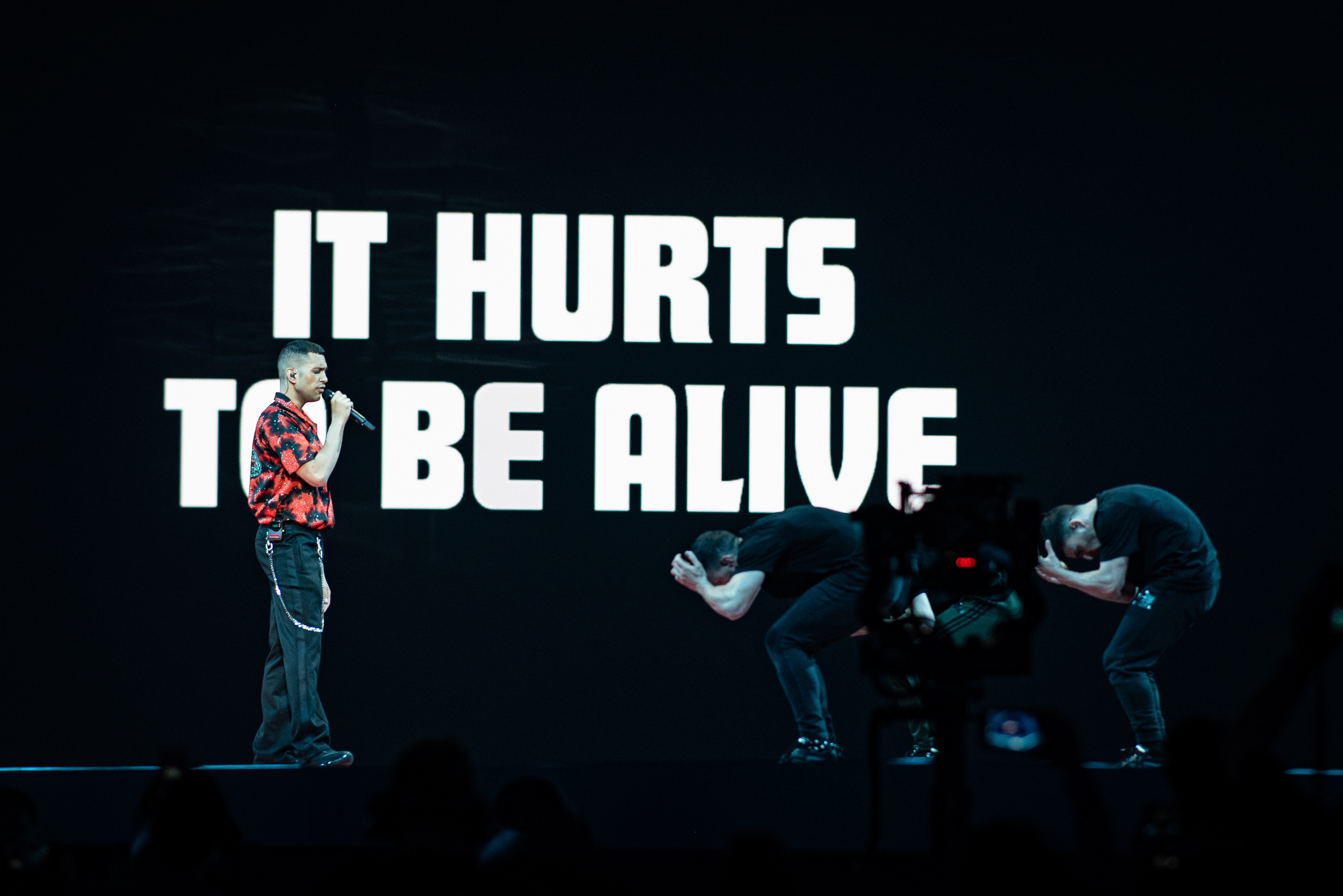 Italian singer-songwriter Mahmood at the 2019 Eurovision Song Contest Grand Final Dress Rehearsal.